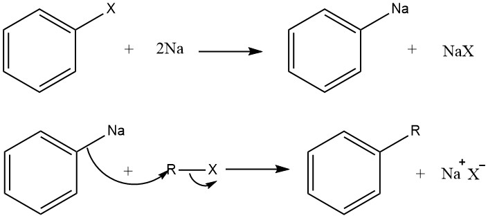 Organo-alkali Mechanism for the Wurtz-Fittig Reaction